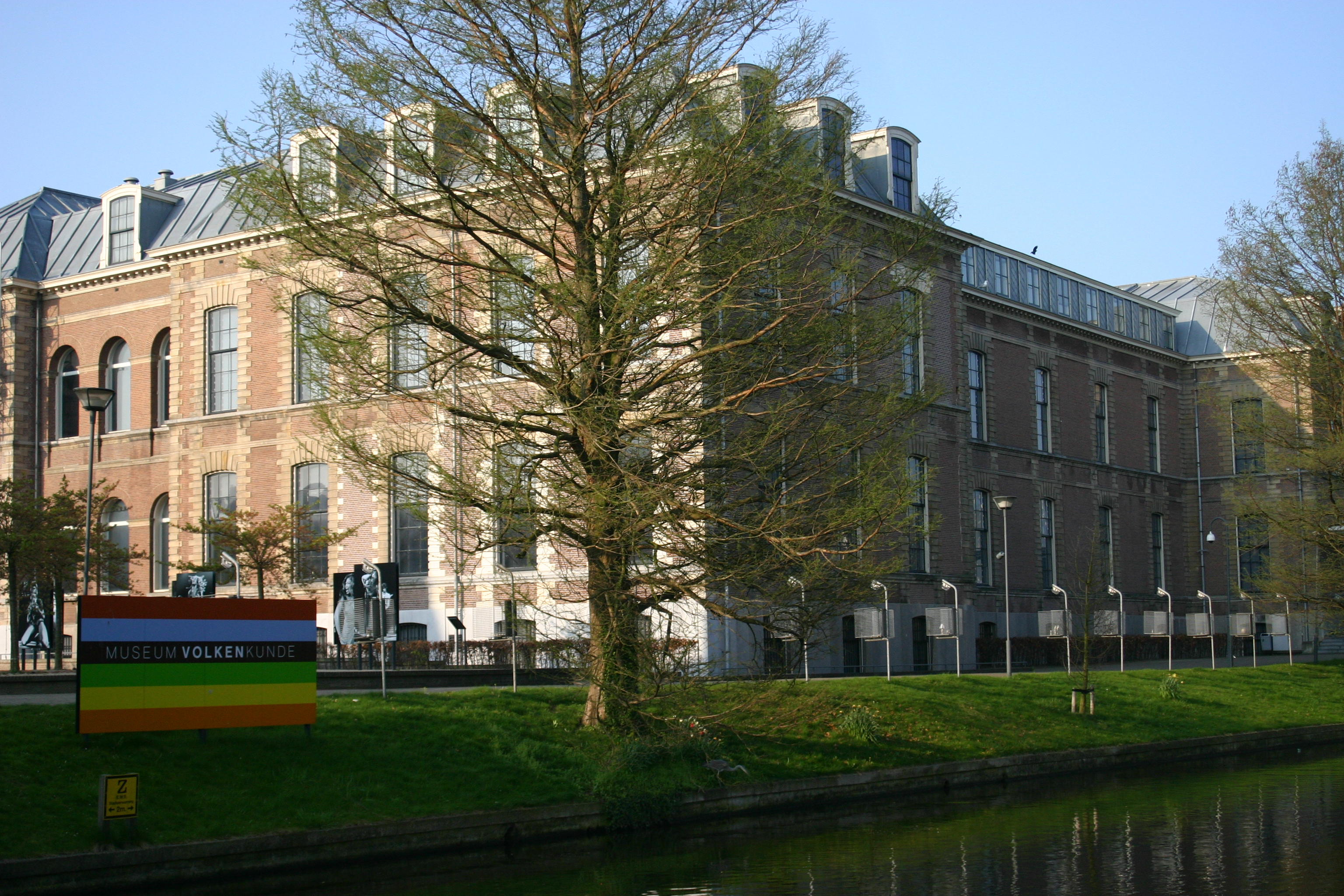 National Museum of Ethnology (Museum Volkenkunde) in Leiden, housed in the former university hospital building. (1867-1870)